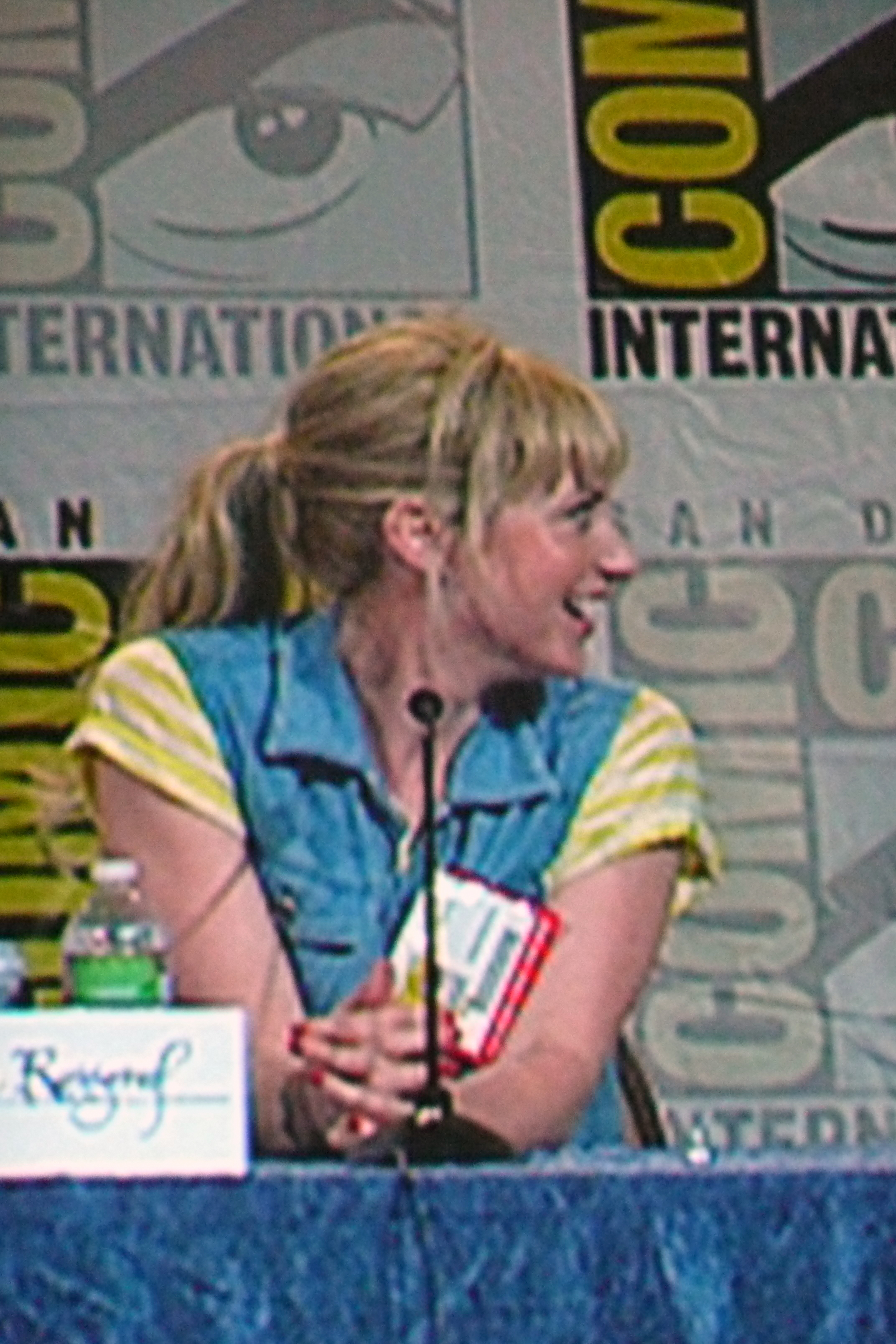 Leverage panel: Beth Riesgraf